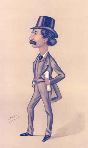 Statesmen No.539: Caricature of Mr Edward Hare Pickersgill MP. Caption reads: "Bethnal Green"